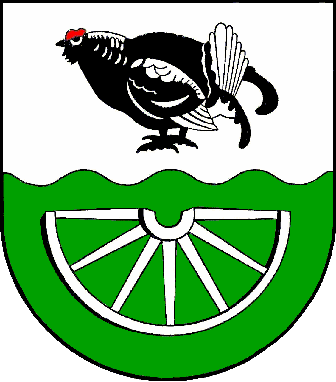 Coat of arms of the municipality Dörpstedt in Schleswig-Holstein, Germany.